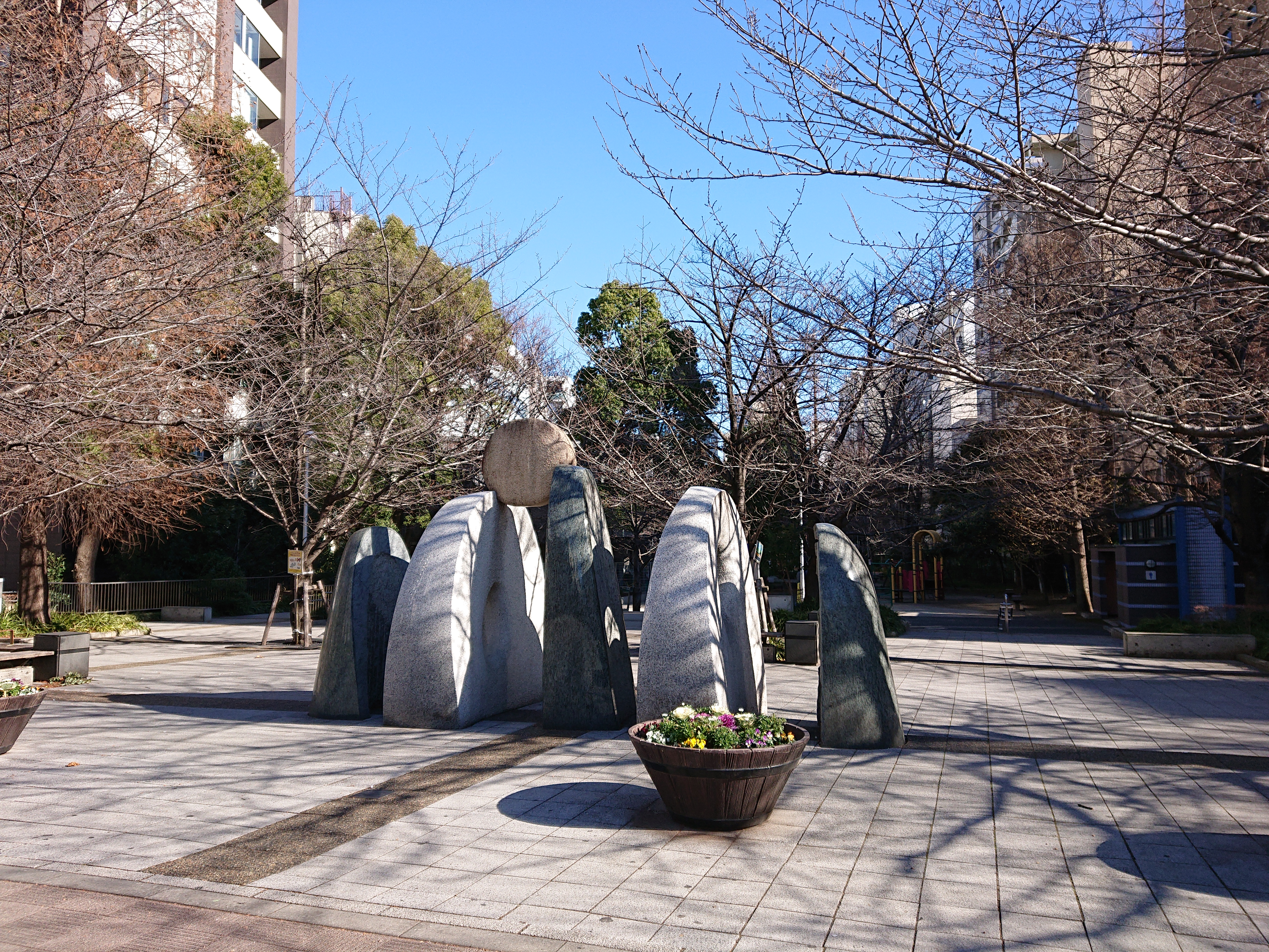 Sakuragawa Park (桜川公園), located at 1-1-1 Irifune, Chuo, Tokyo, Japan